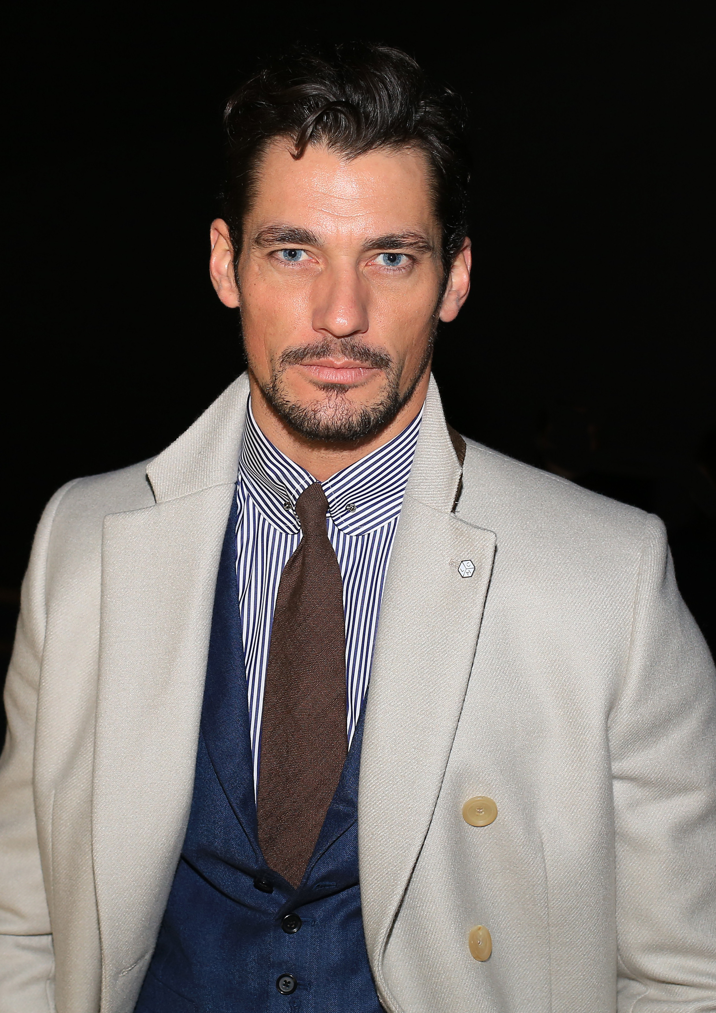 Portrait by Walterlan Papetti